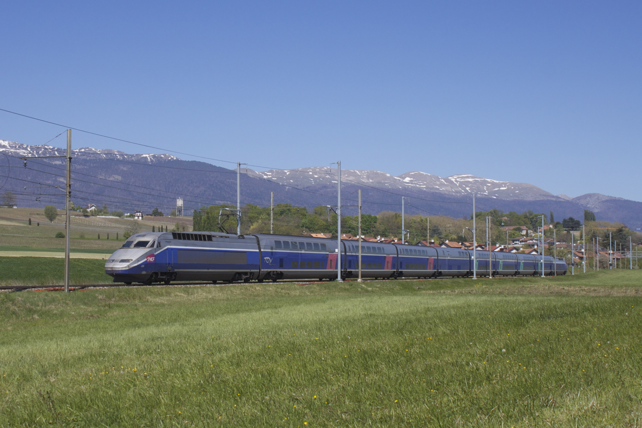 SNCF TGV Réseau Duplex 619 at Satigny while running as TGV 9756 from Genève to NIce-Ville.